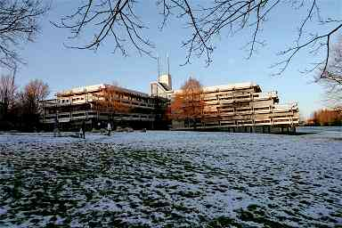 Town hall of Alfter, Germany.